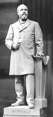 Statue of James A. Garfield at NSHC